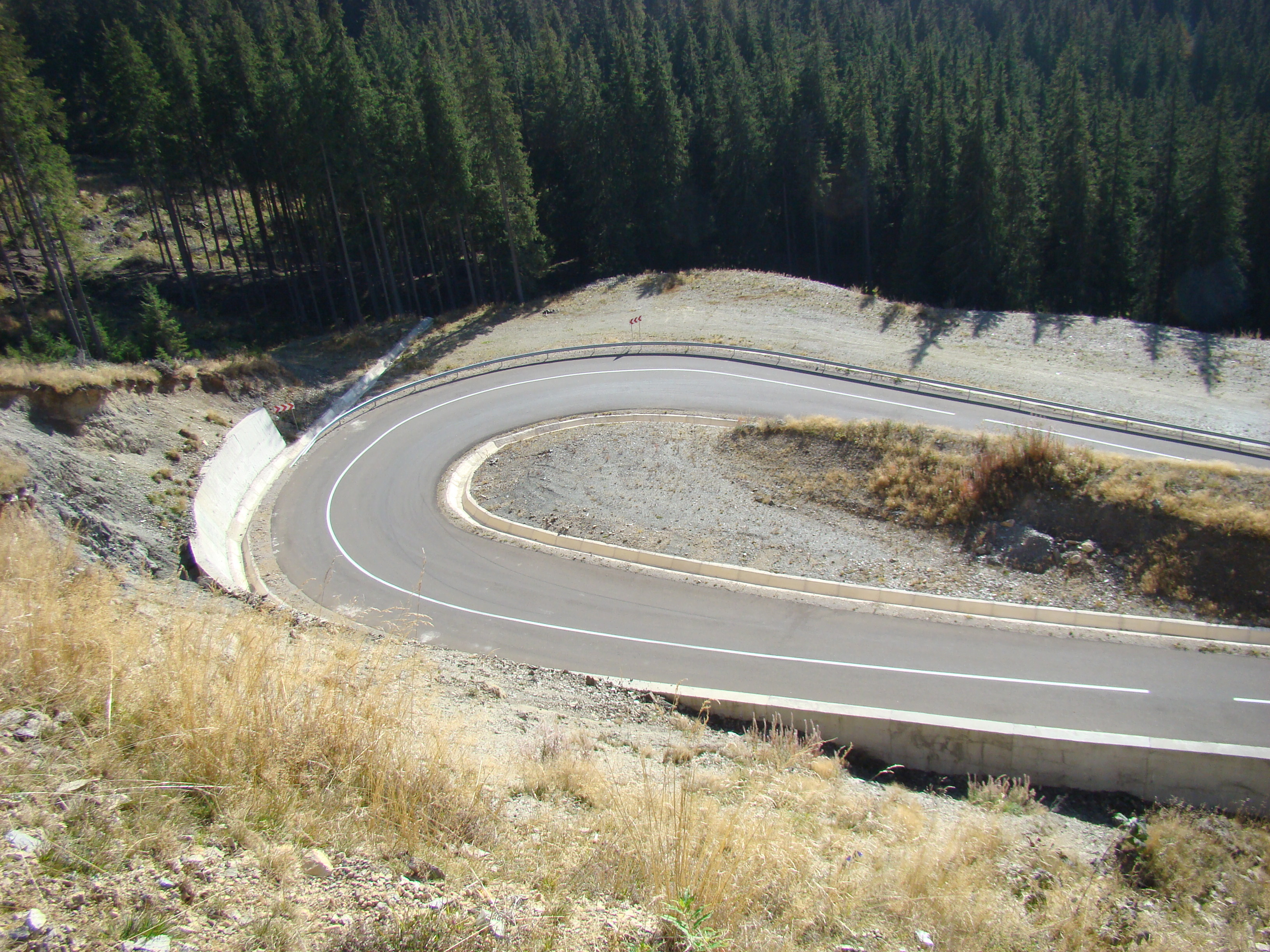 Transrarăul (DJ175B), Suceava county, Romania